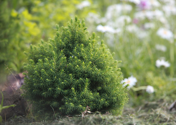 Picea glauca 'Alberta-Globe'